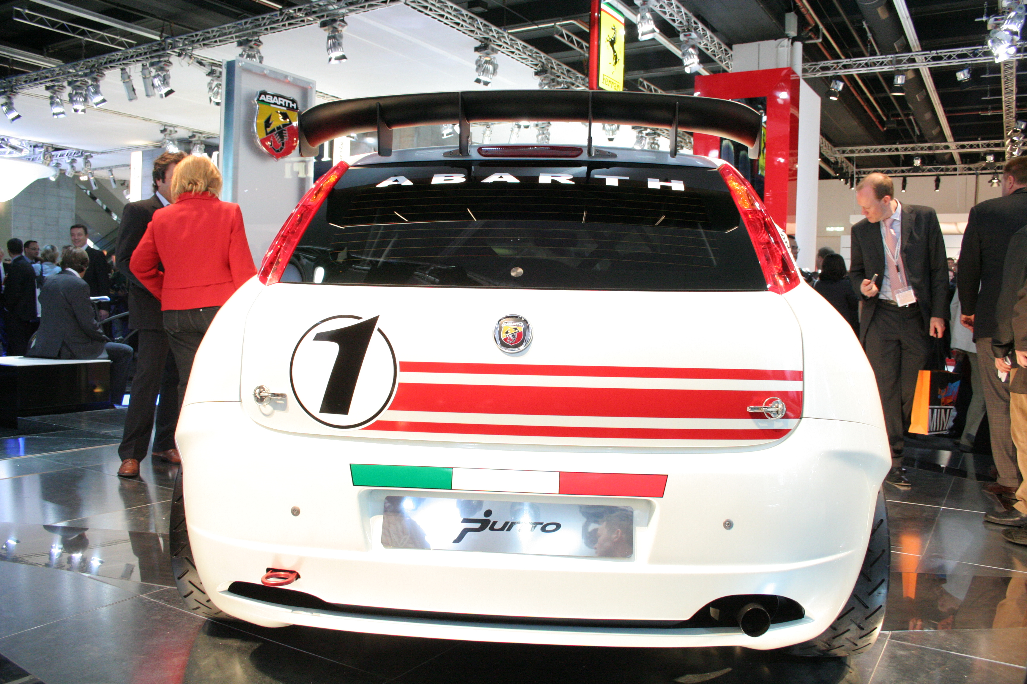 Image from IAA 2007 in Frankfurt am Main